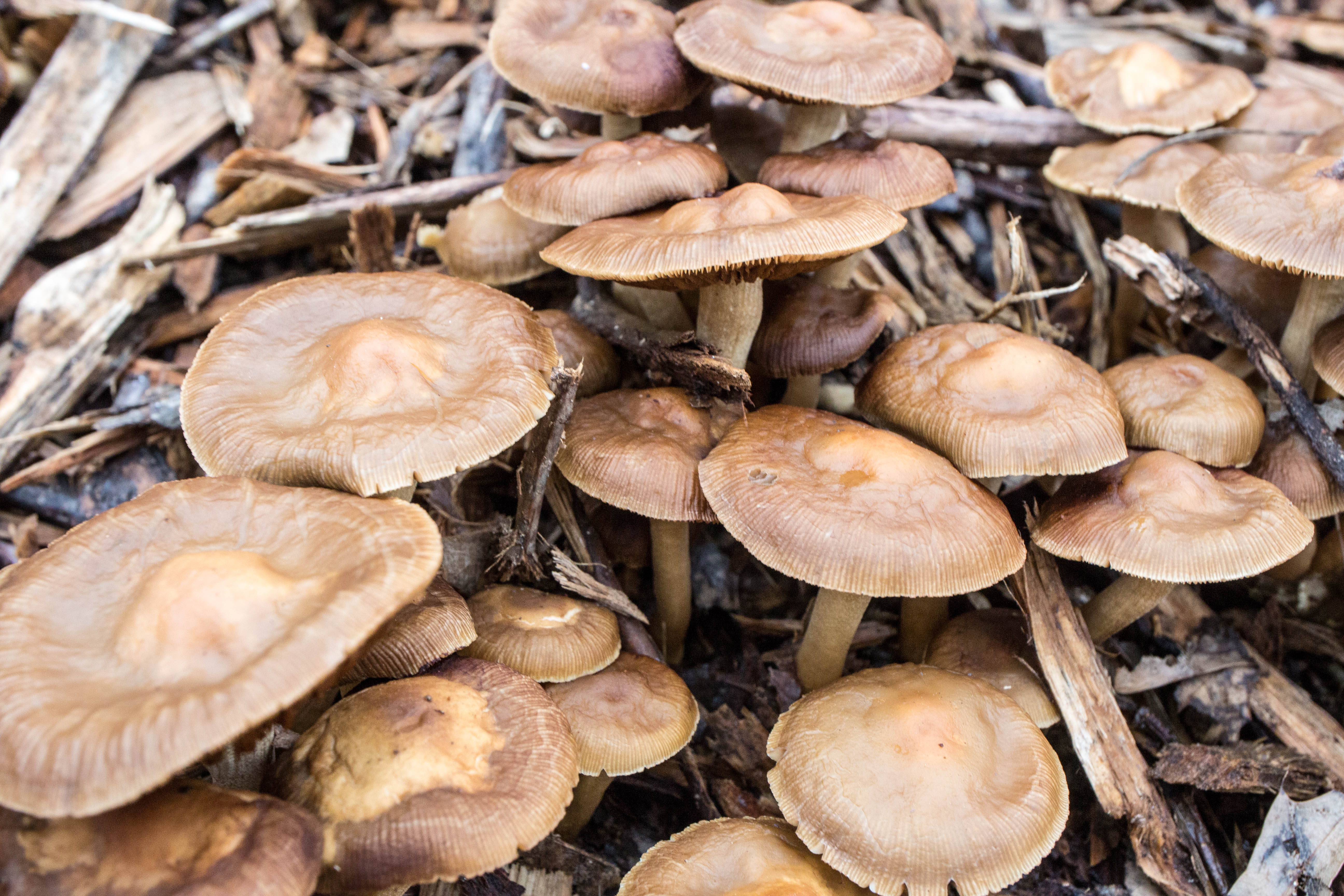 Agrocybe sororia in Piedmont Park, Atlanta, Georgia